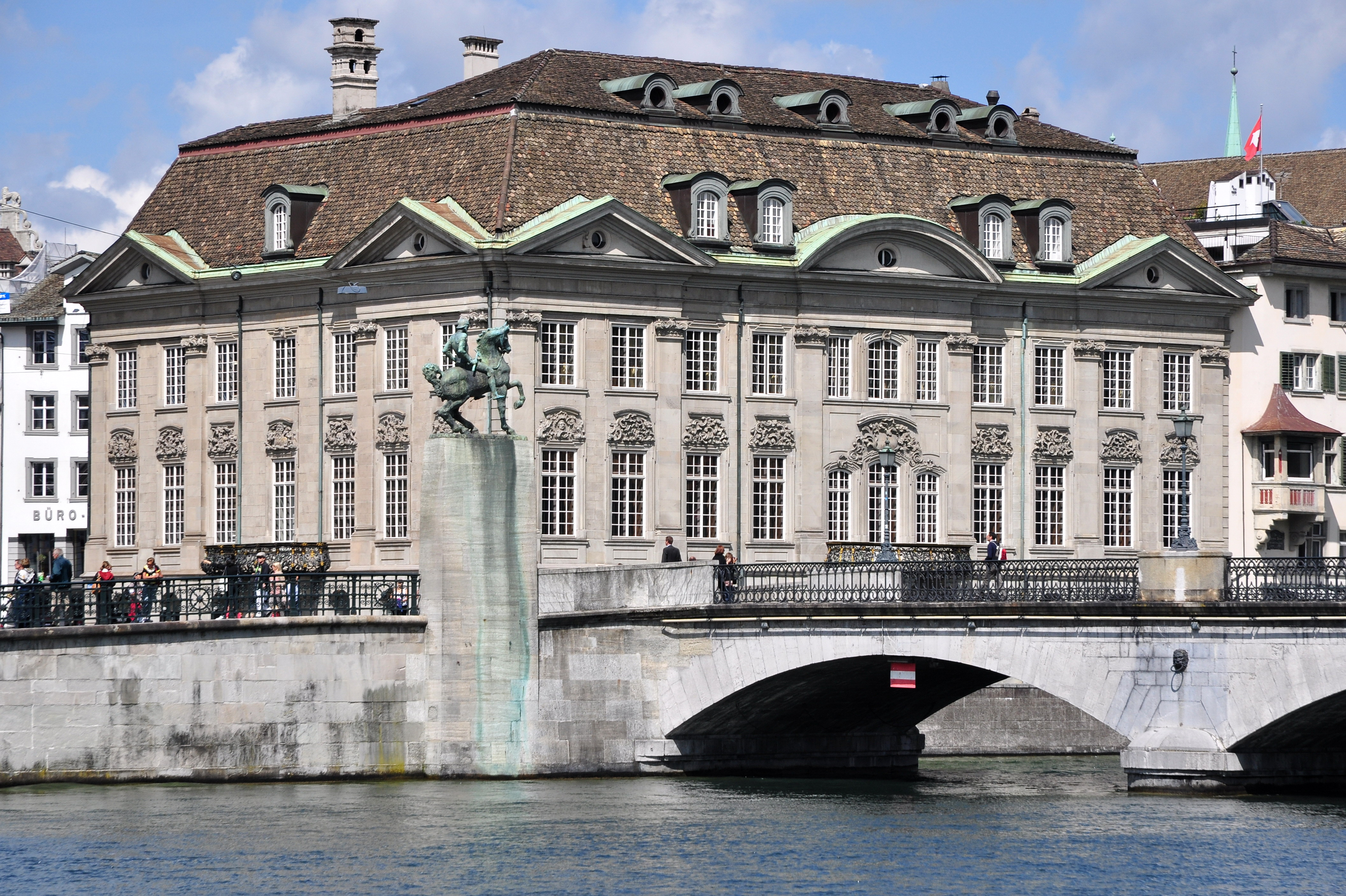 Zunfthaus (guild house) zur Meisen at Münsterhof in Zürich (Switzerland), as seen from Limmatquai, Münsterbrücke and the Hans Waldmann equastrian statue in the foreground.